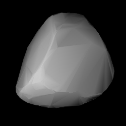 3D convex shape model of 626 Notburga, computed using light curve inversion techniques. J. Hanuš, J. Ďurech, M. Brož, B. D. Warner (June 2011). "A study of asteroid pole-latitude distribution based on an extended set of shape models derived by the lightcurve inversion method". Astronomy and Astrophysics 530: A134. ISSN 0004-6361. arXiv